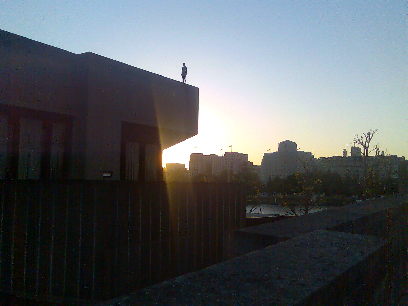 Photograph showing one of the Event Horizon sculptures by Anthony Gormley on the south bank of the river Thames, London, UK